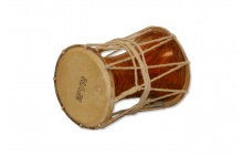 Dhadd is one of the traditional musical instrument of Punjab region used in various cultural activities like folk music etc..